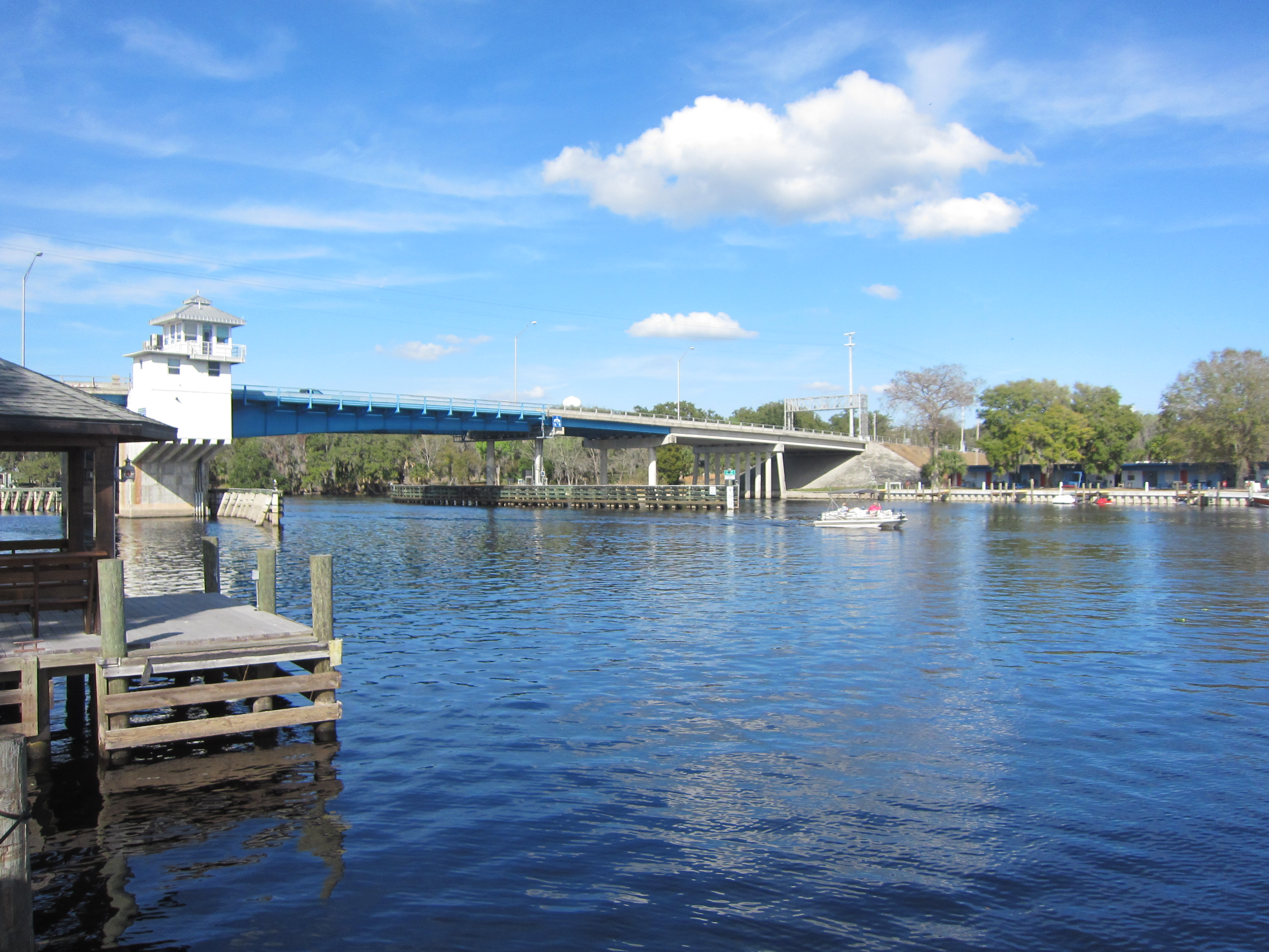 Astor Bridge at Astor, Florida on the St. Johns River between Lake County and Volusia County. Photograph taken at the dock on the Blackwater Inn, 55716 Front Street, Astor.